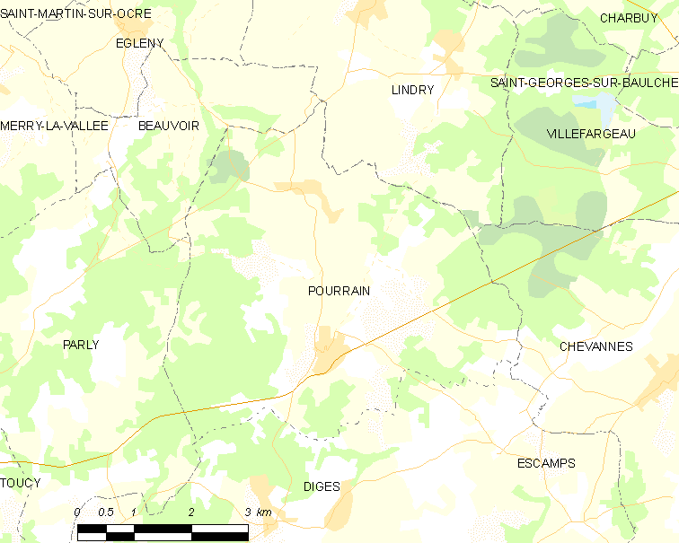 Map of French municipality Pourrain